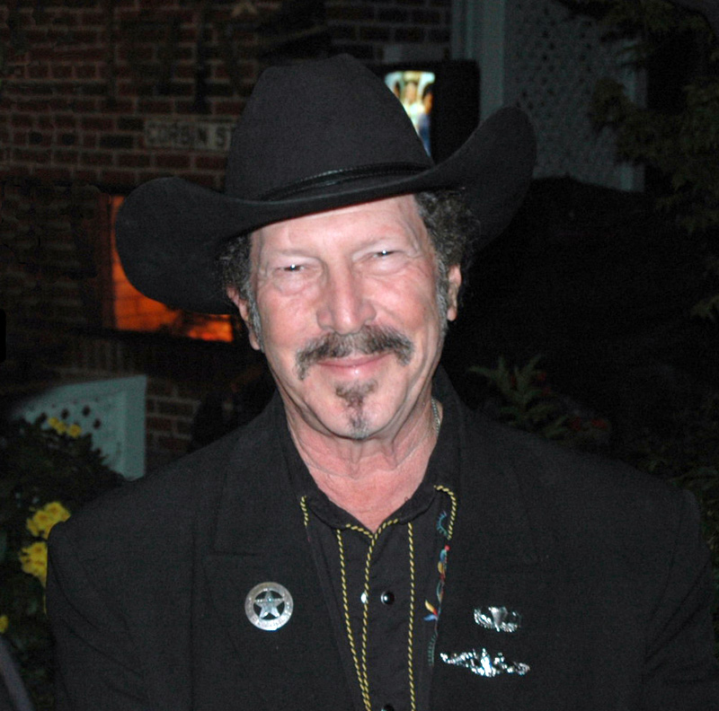 Ahh, Kinky Friedman, the coolest candidate for governor Texas has ever had. I followed his campaign closely, and got to interview The Kinkster Himself a number of times along the way. This shot was taken the night before the election, at a Dallas dinner/fundraiser.